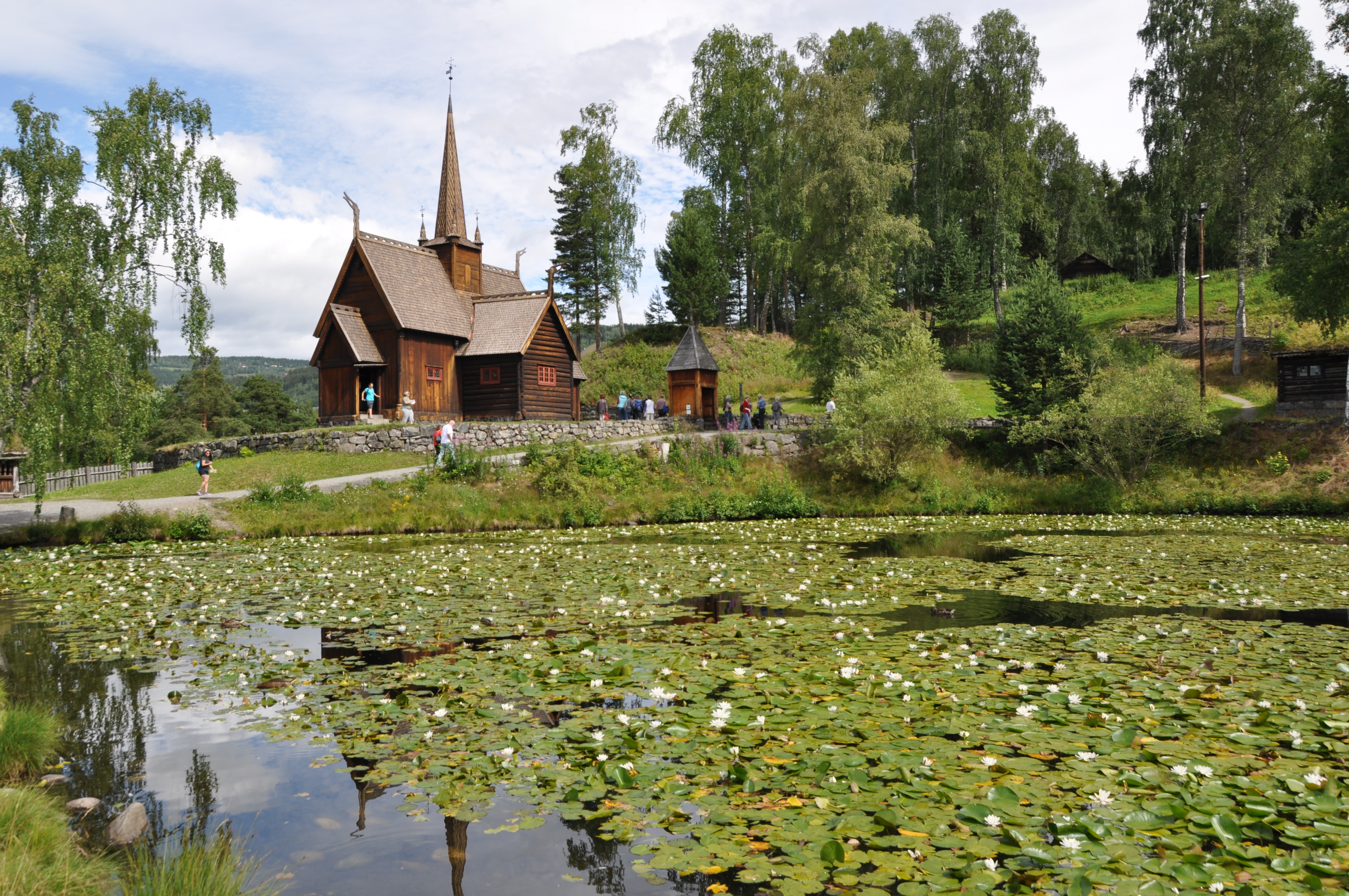 Maihaugen, Lillehammer, Garmo stavechurch